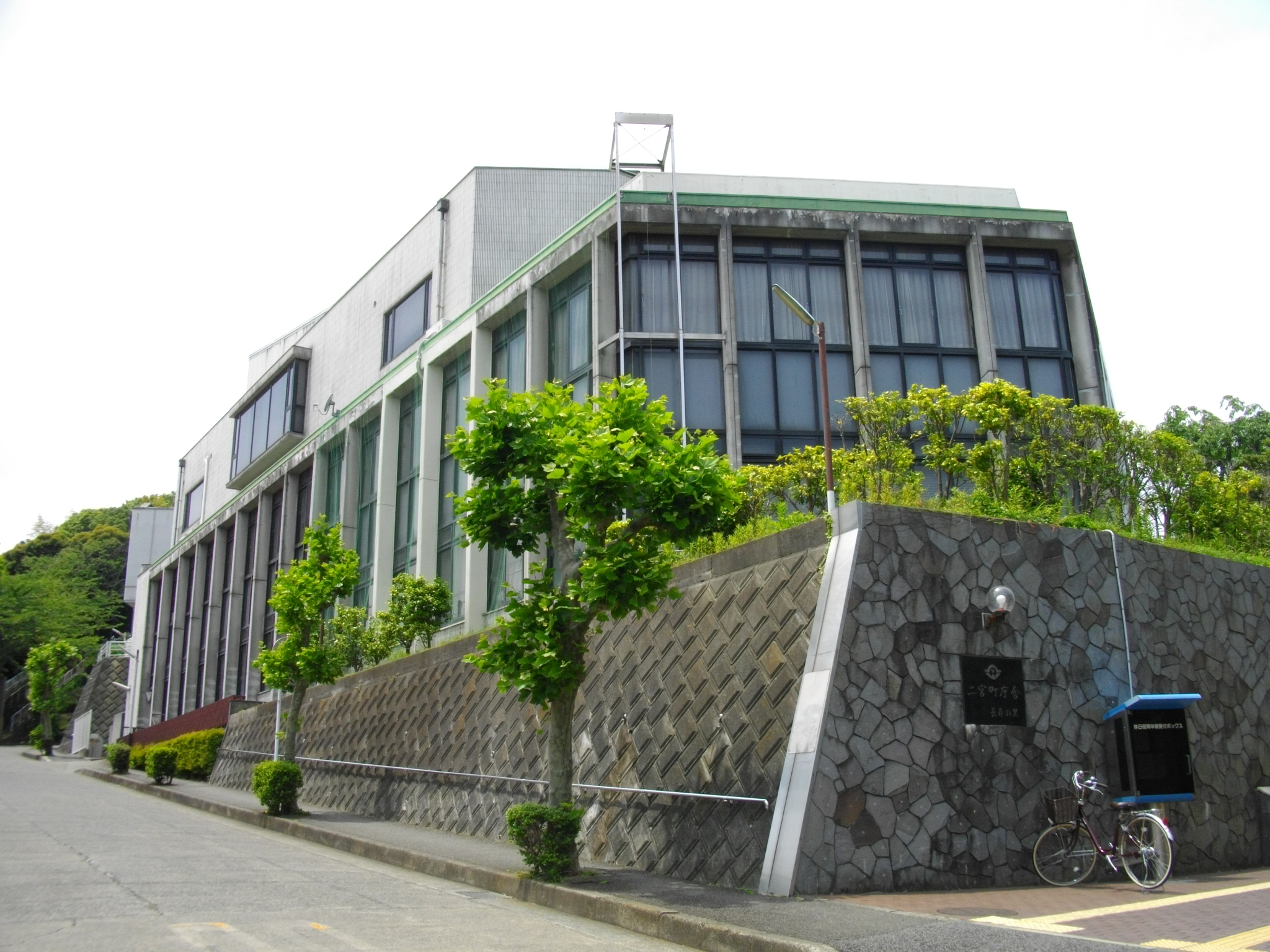 Ninomiya Town Office